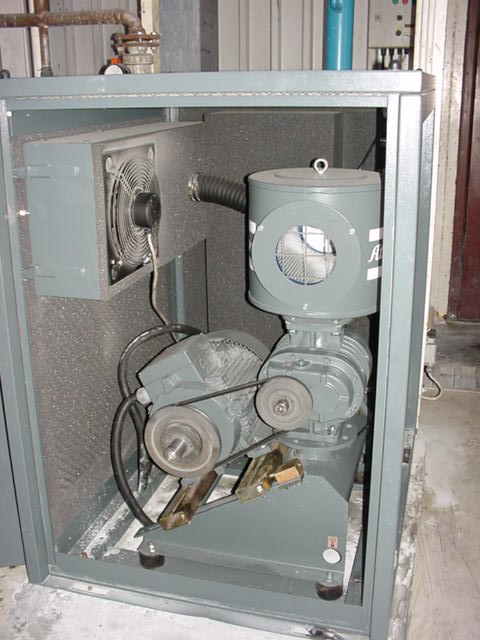 Roots blower